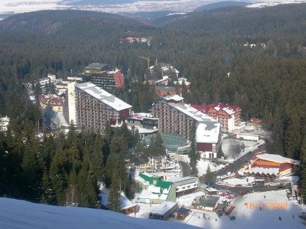 taken by myself, 13th January 2008 in Borovets